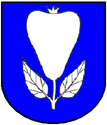 Coat of arms of Birwinken, Canton of Thurgau, SwitzerlandEsperanto: Blazono de Birwinken, Kantono Turgovio, Svislando